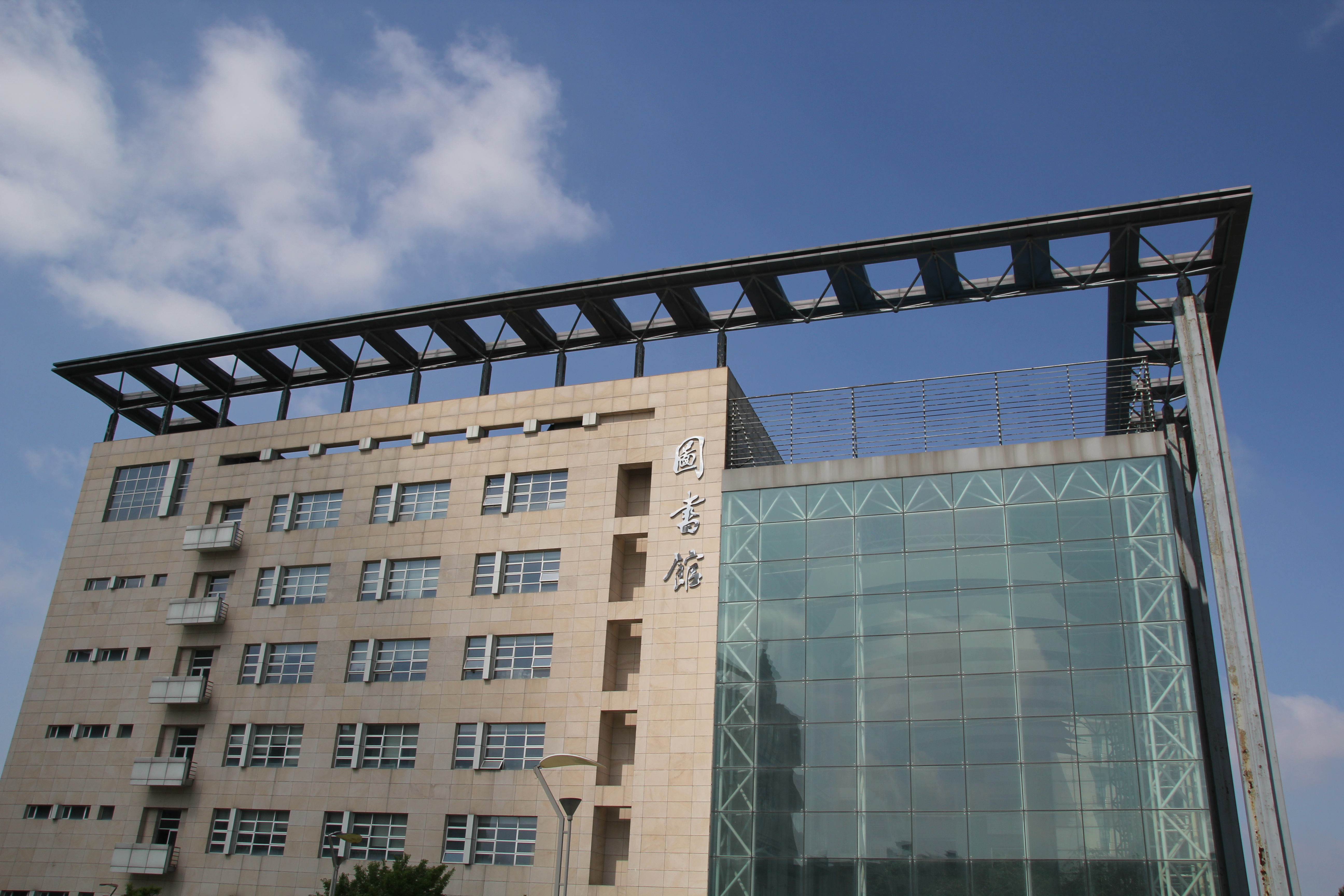 Library of Jilin University's main campus.